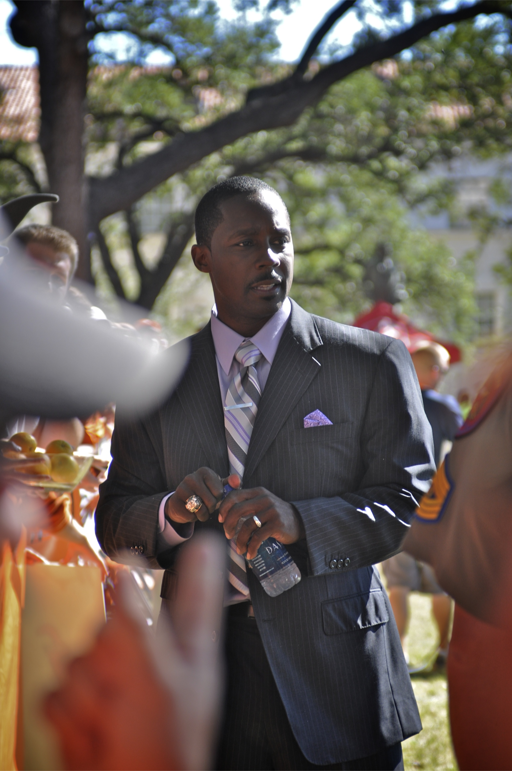 Desmond Howard in Austin while working for the ESPN College GameDay coverage of the Missouri vs Texas game on October 18, 2008.